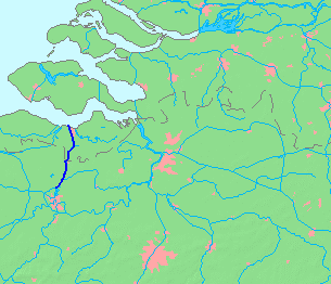 Location of a waterway (river/canal) in the Netherlends